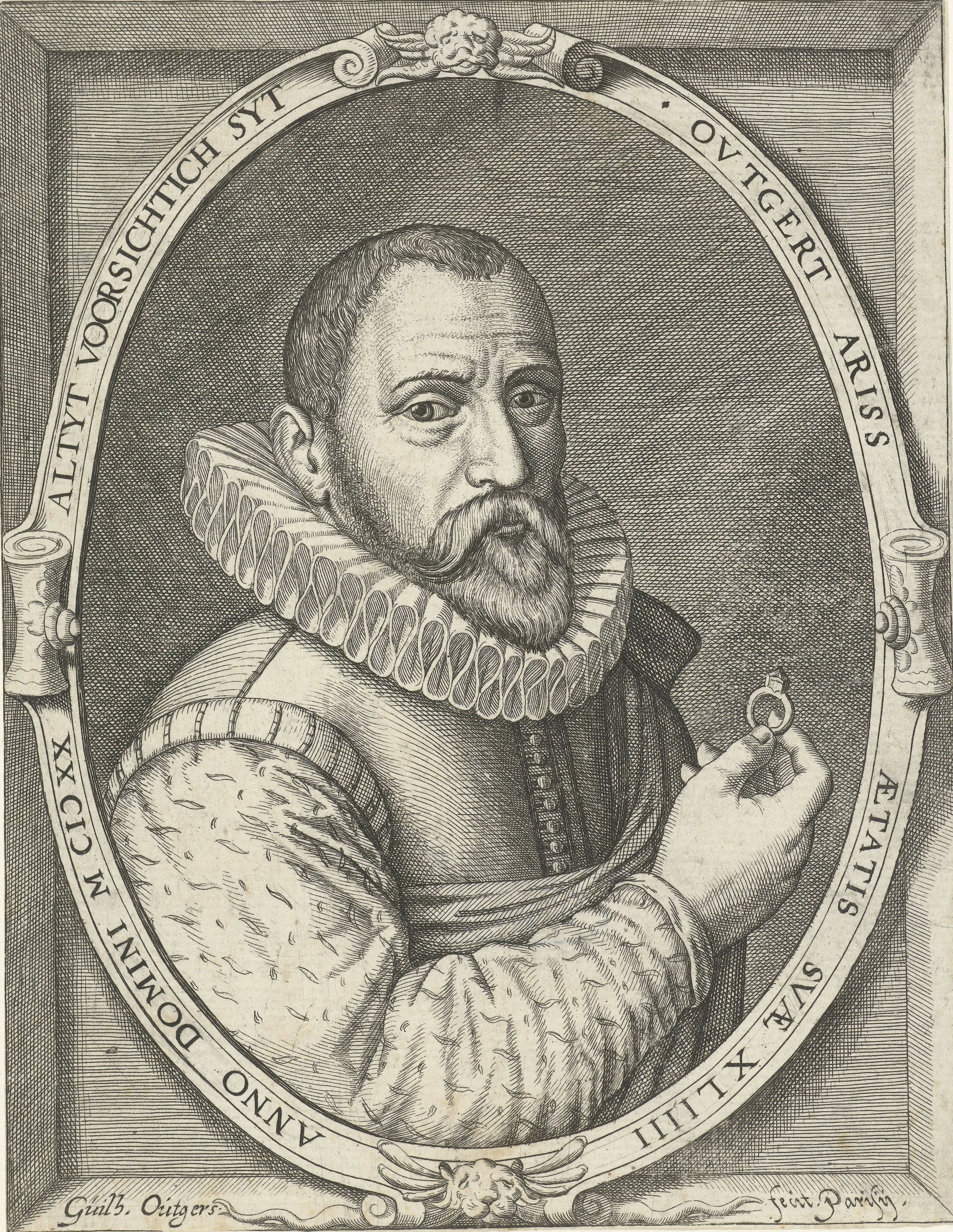 Engraving made in Paris by Willem Outgersz Akersloot - Portrait of his father Outgert Ariss, aged 44 in 1620 and holding a ring symbolizing his profession of silversmith